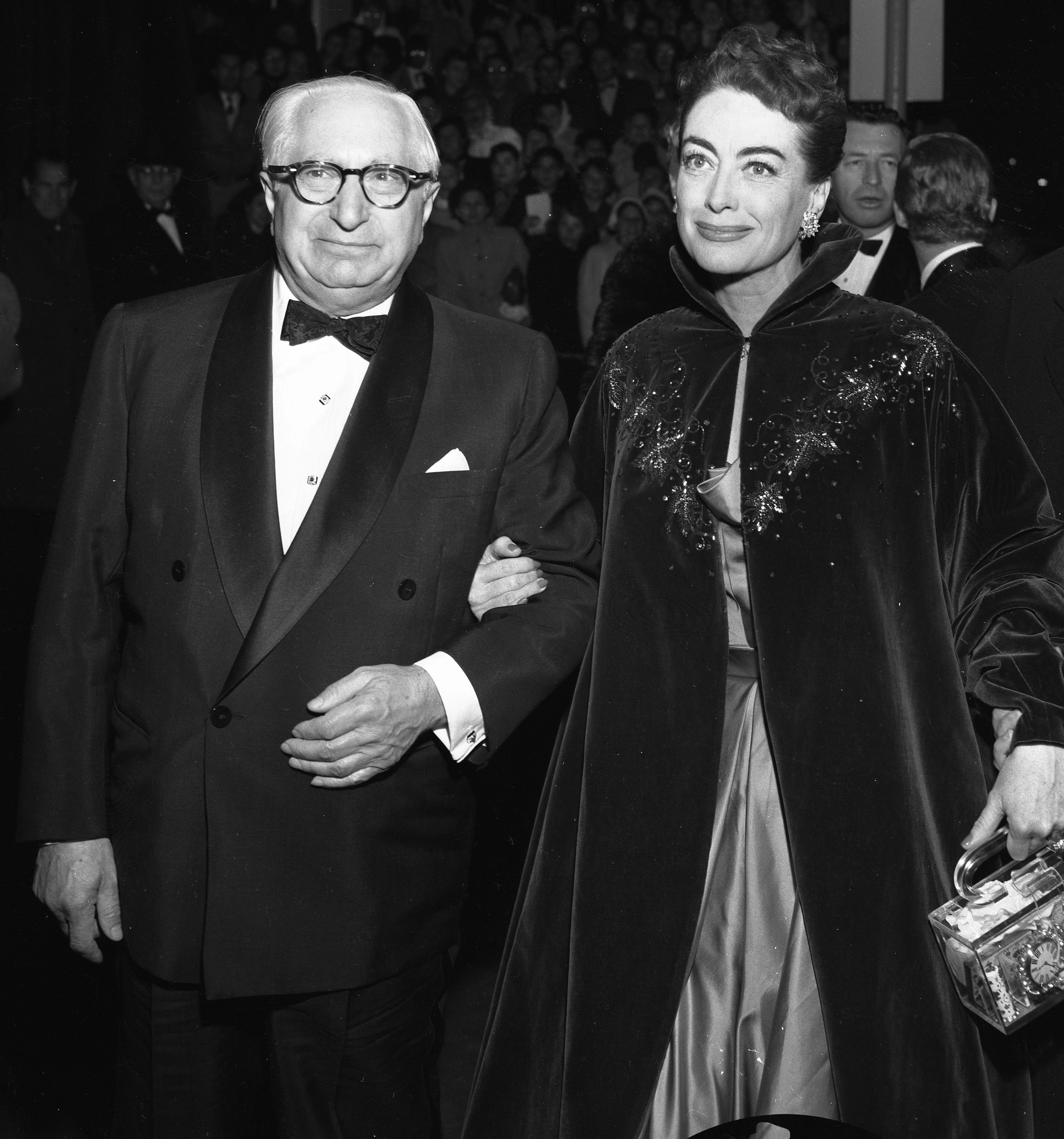 Actress Joan Crawford on the arm of Louis B Mayer at the "Torch Song" movie premiere in Los Angeles, Calif., 1953